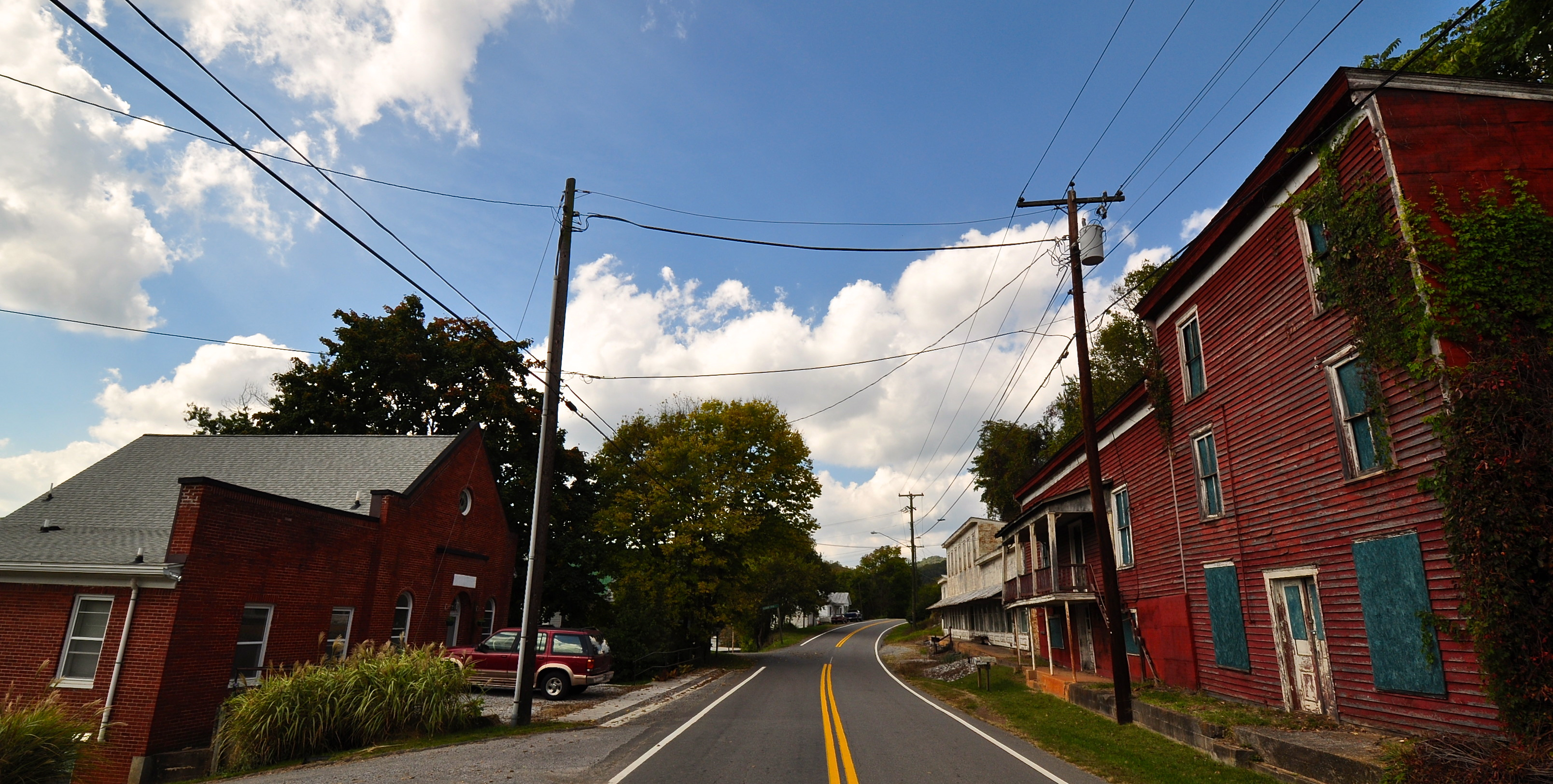 Located on Oldtown Road, (VA 753), in Shawsville, Montgomery County, Virginia.